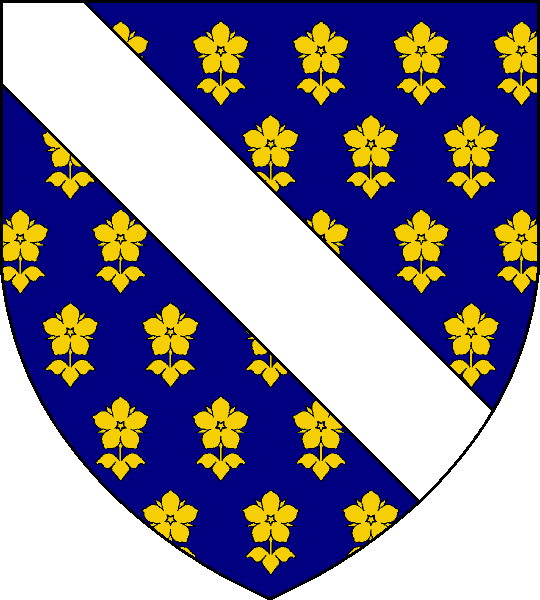 Armorial bearings of the DARBY family of Kemerton, Worcs. Azure a semy of pimpernels or, a bend Argent. Matriculated at the College of Arms.